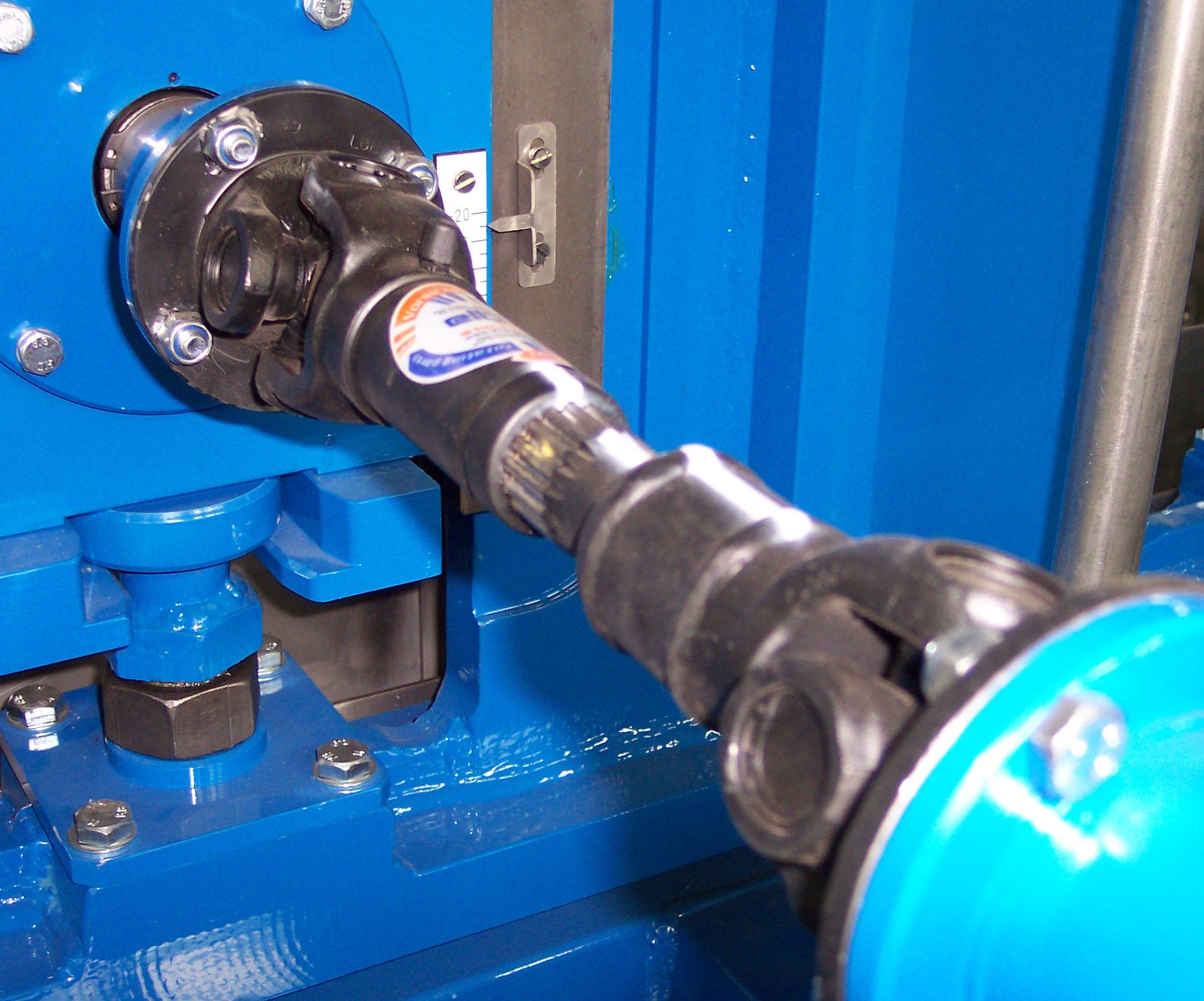 Cardan_Shaft Picture